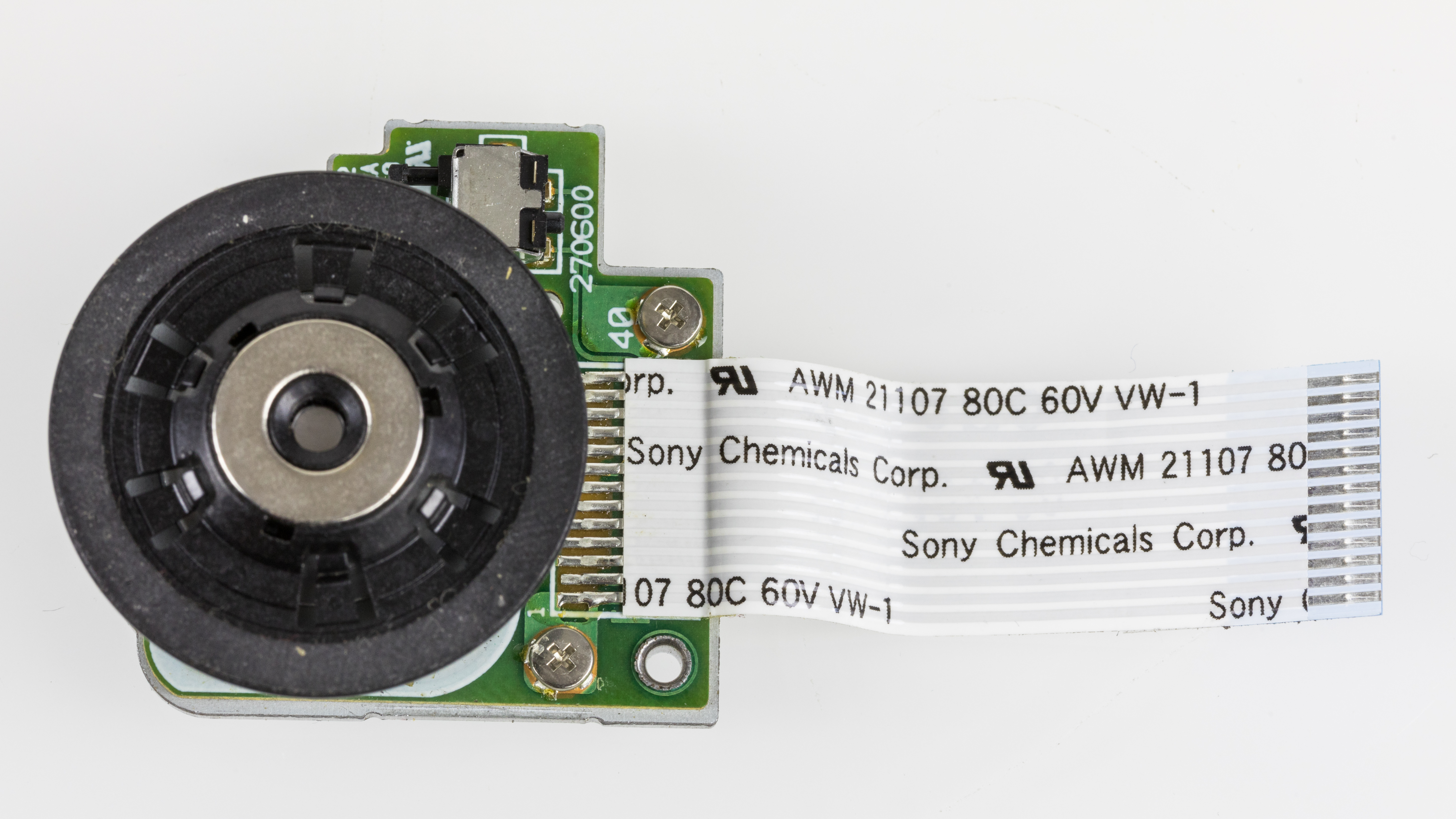 Plextor PX-716A - disc drive motor with Sony Chemicals flexible flat cable